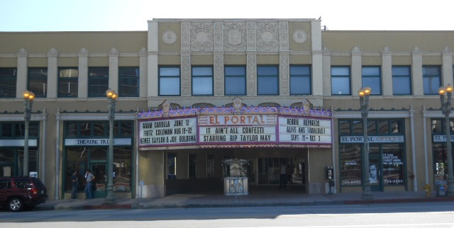 El Portal Theatre in the NoHo Arts District — on Lankershim Boulevard in North Hollywood in the San Fernando Valley, Los Angeles, California.